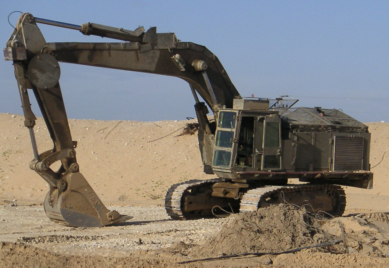 IDF Engineering Corps' Armored Excavator in Philadelphie Route